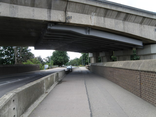 Bridge strengthening, Huntingdon The steel beams are holding the A14 fly over bridge up as it crosses the Bramptom road and the East Coast Main line railway near Huntingdon Station. I think this bridge is to be demolished once the new A14 link road is completed or started even between Brampton Hut and the A14 near Fen Ditton Apparently part of the A14 will be de-trunked (I hope they use Anesthetic)